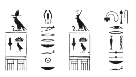 Drawing by G. Daressy of a bronze cylinder seal of Shepseskare Isi of the 5th dynasty.